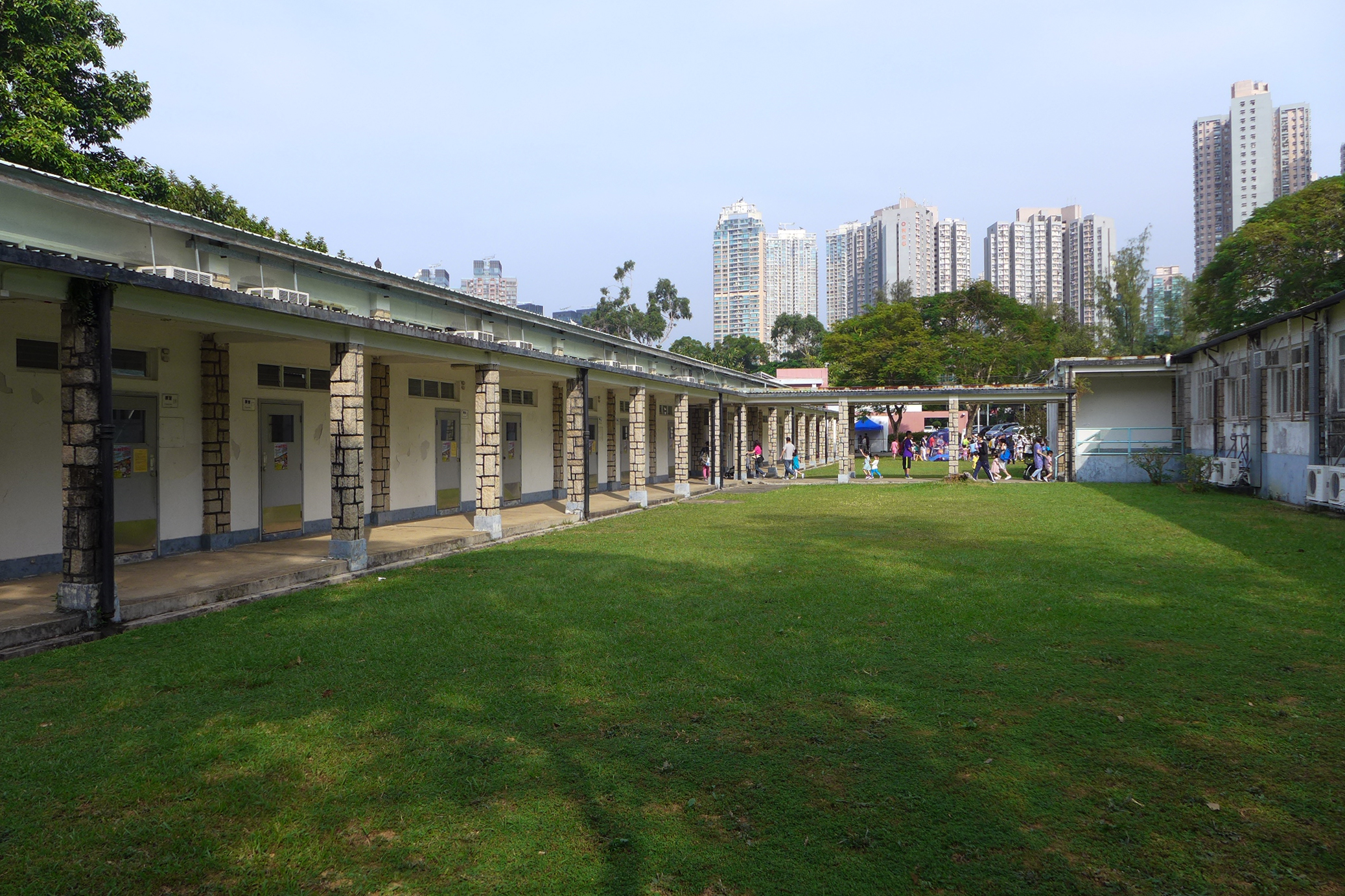 WKS Youth Village Classroom